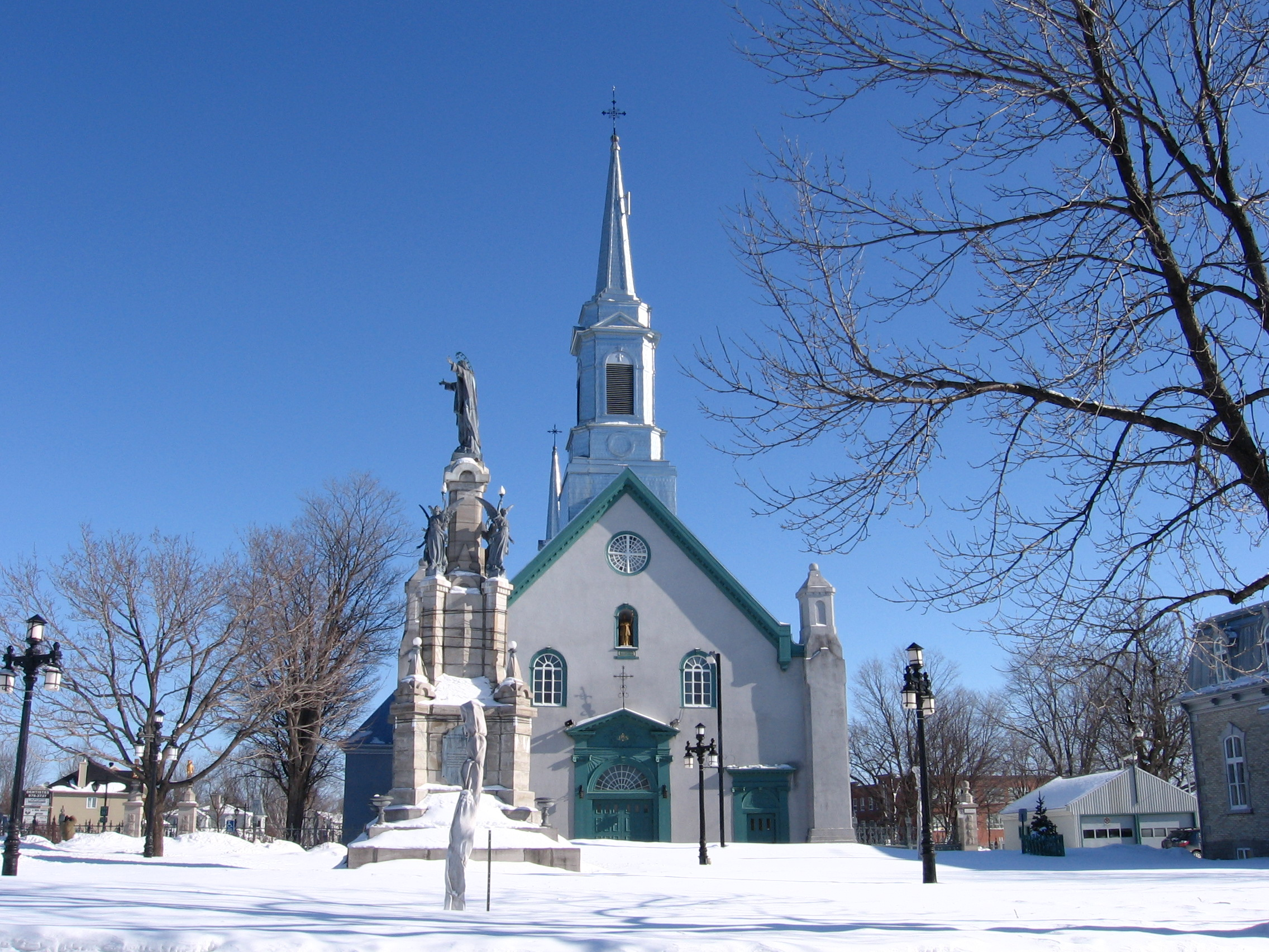 Saint-Augustin-de-Desmaures